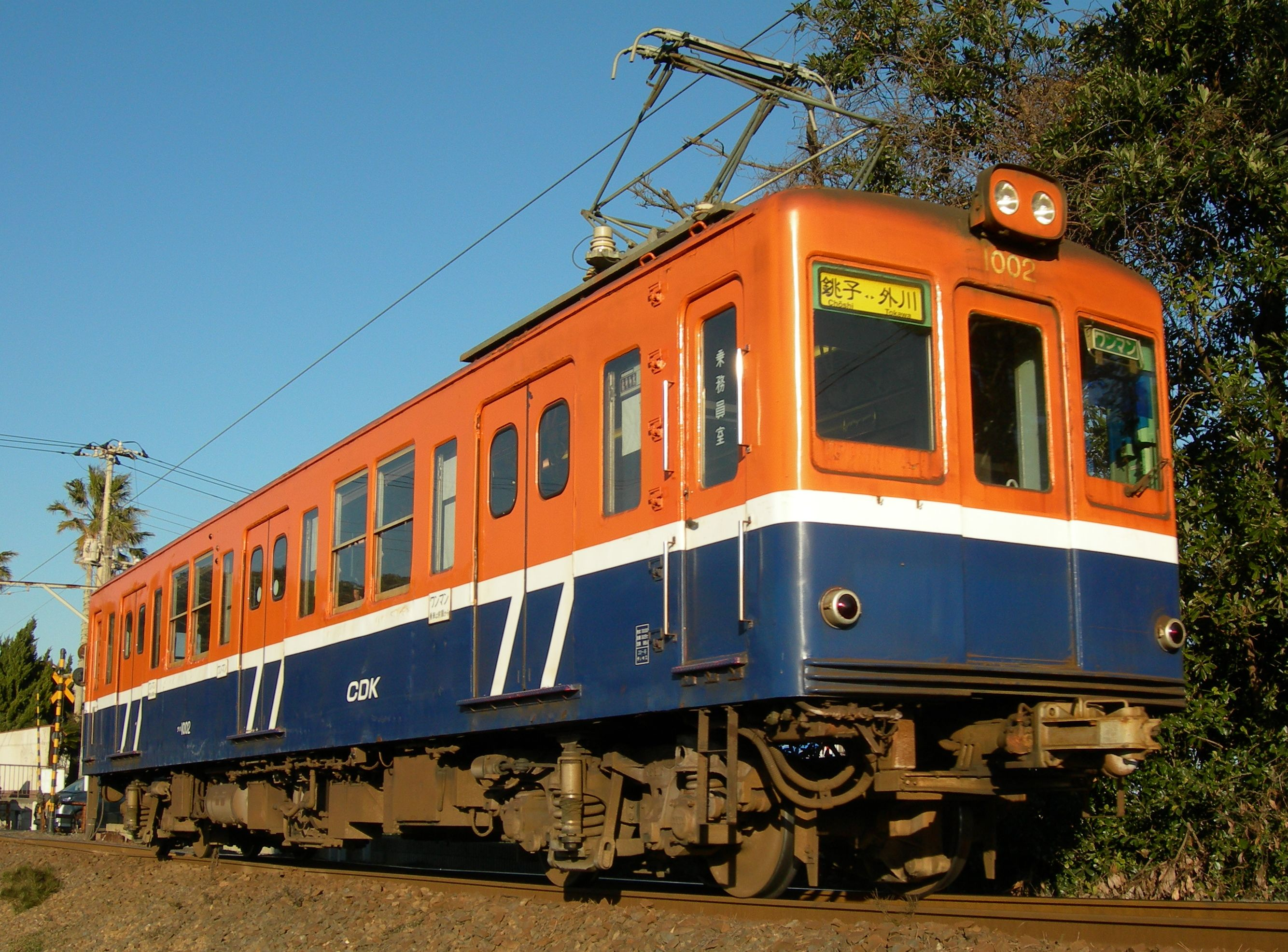 Choshi Electric Railway 1000 series EMU car DeHa 1002 near Inuboh Station